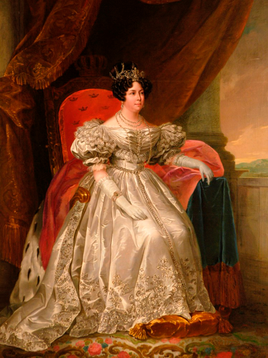 Désirée Clary (1777-1860), Queen Desideria of Sweden, queen of Sweden and Norway (1818-1844)